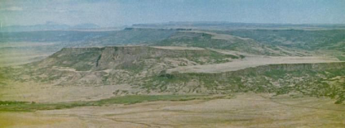 An aerial photo of the Mesa de Maya in Southeastern Colorado